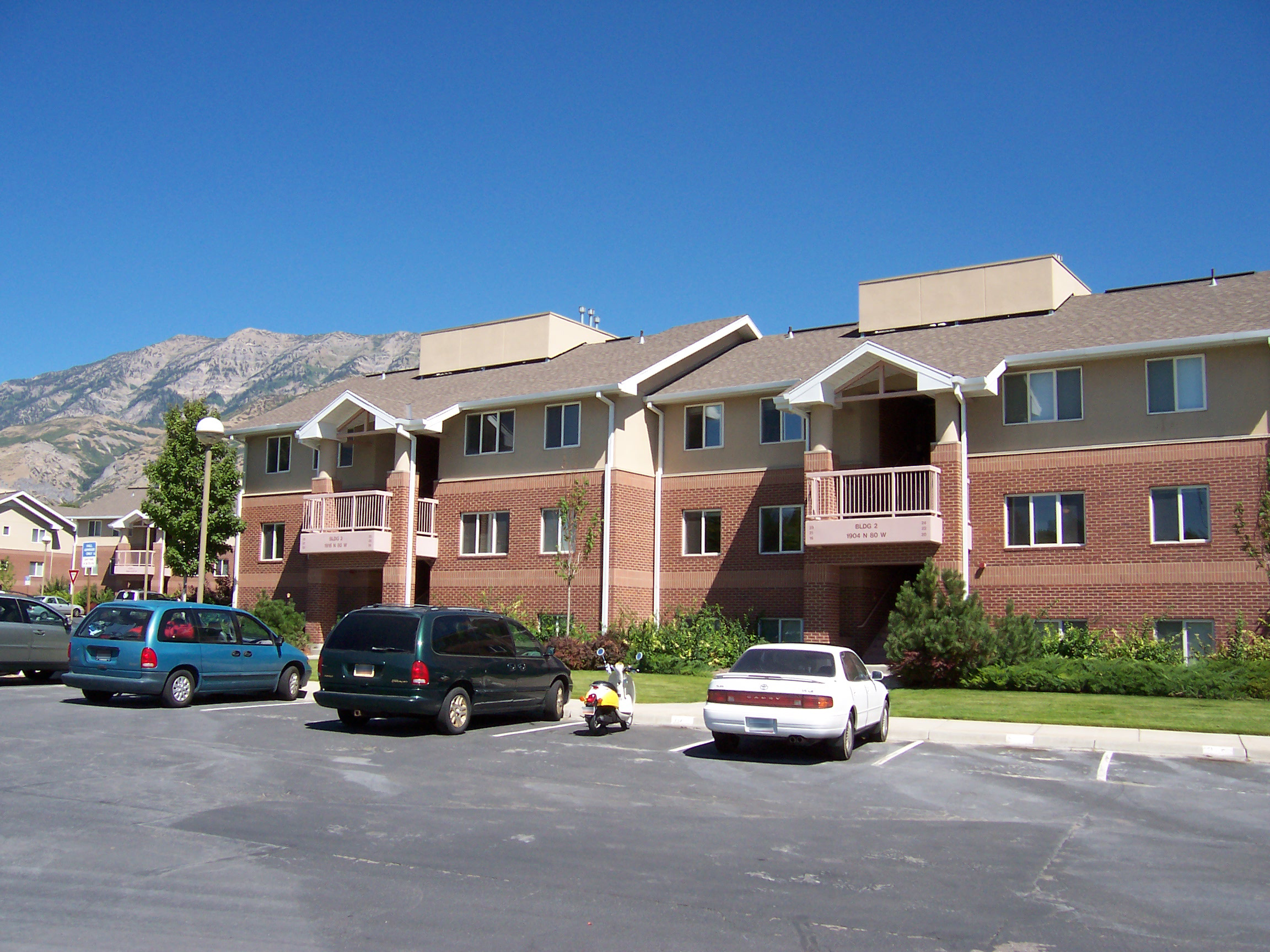 Photograph of Wyview Park (WP02) at Brigham Young University.